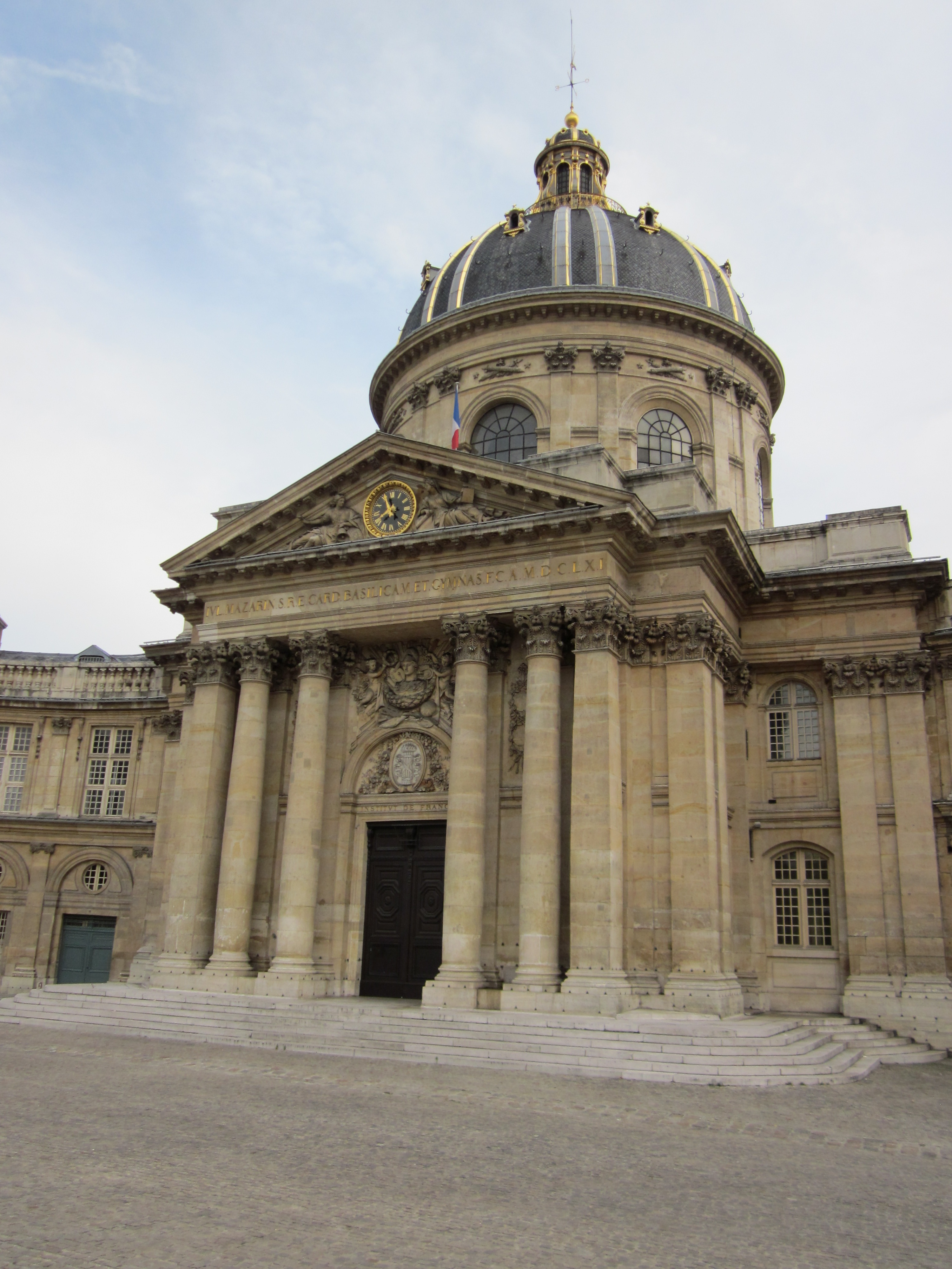 French Institute, Paris, France.